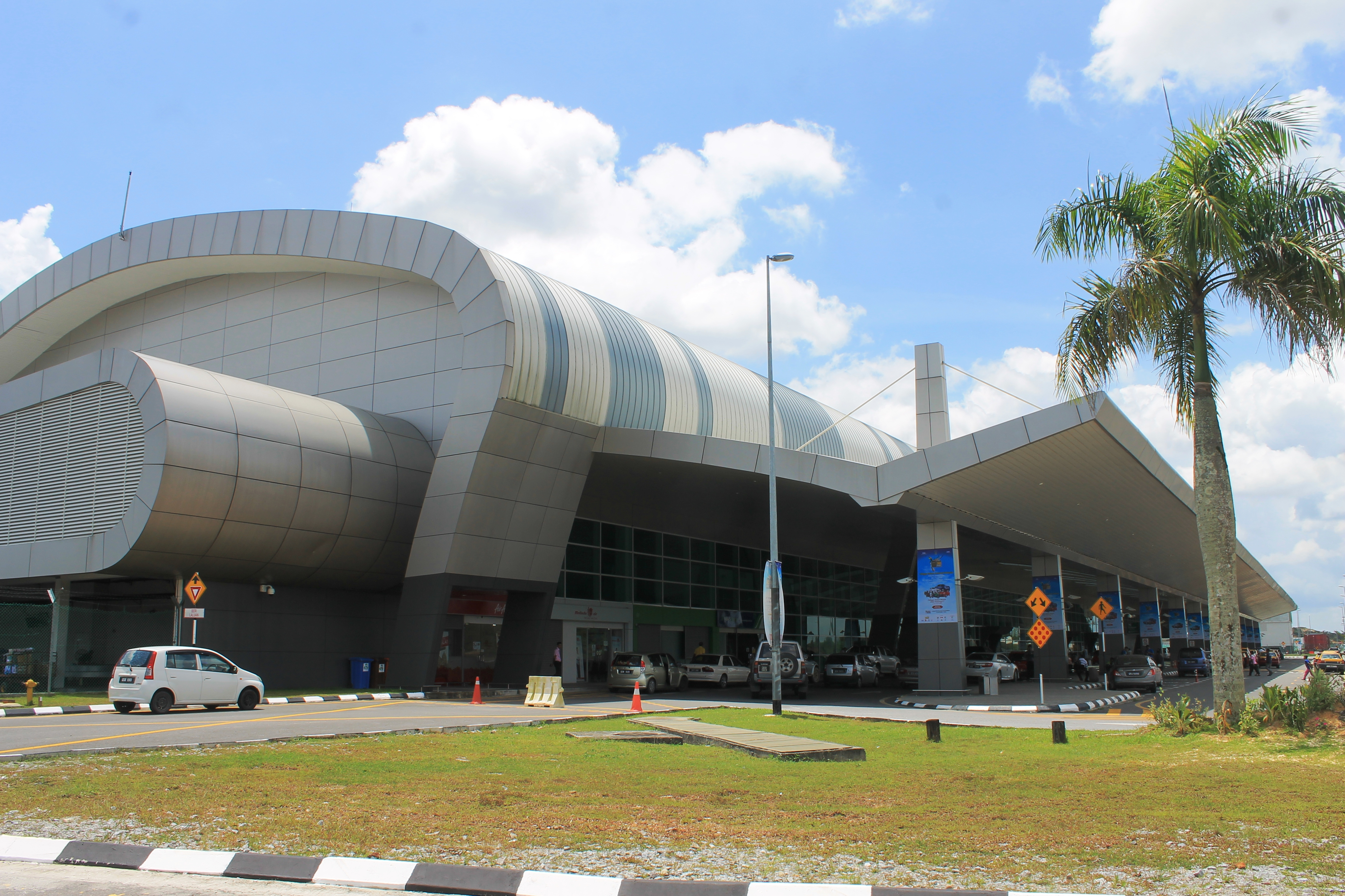 The view of Sibu Airport terminal after upgrade completion.